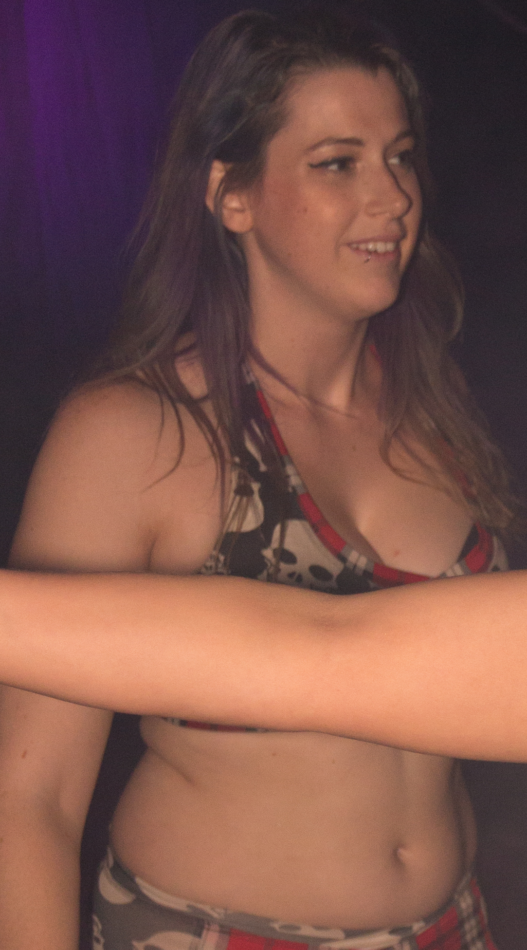 The Canadian Ninjas - Portia Perez (front) and Nicole Matthews - making their ring entrance at Smash Wrestling's Canusa 2015 show in Etobicoke, ON